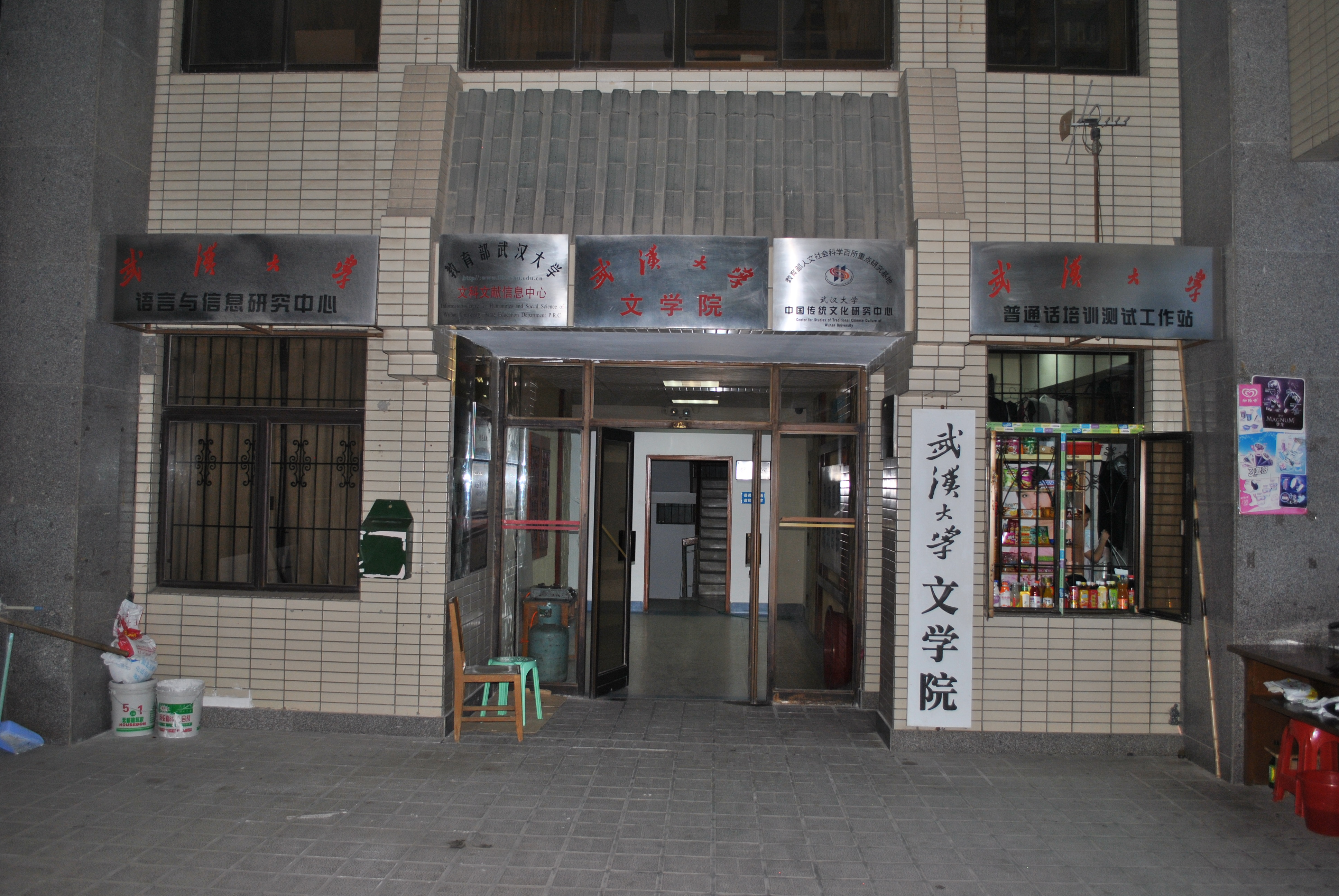 Wuhan University College of Chinese